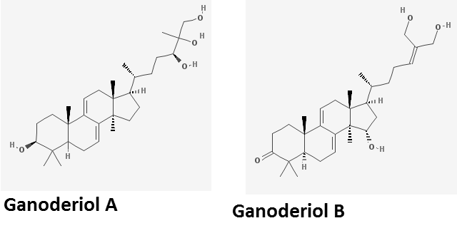 Ganoderiol A&B